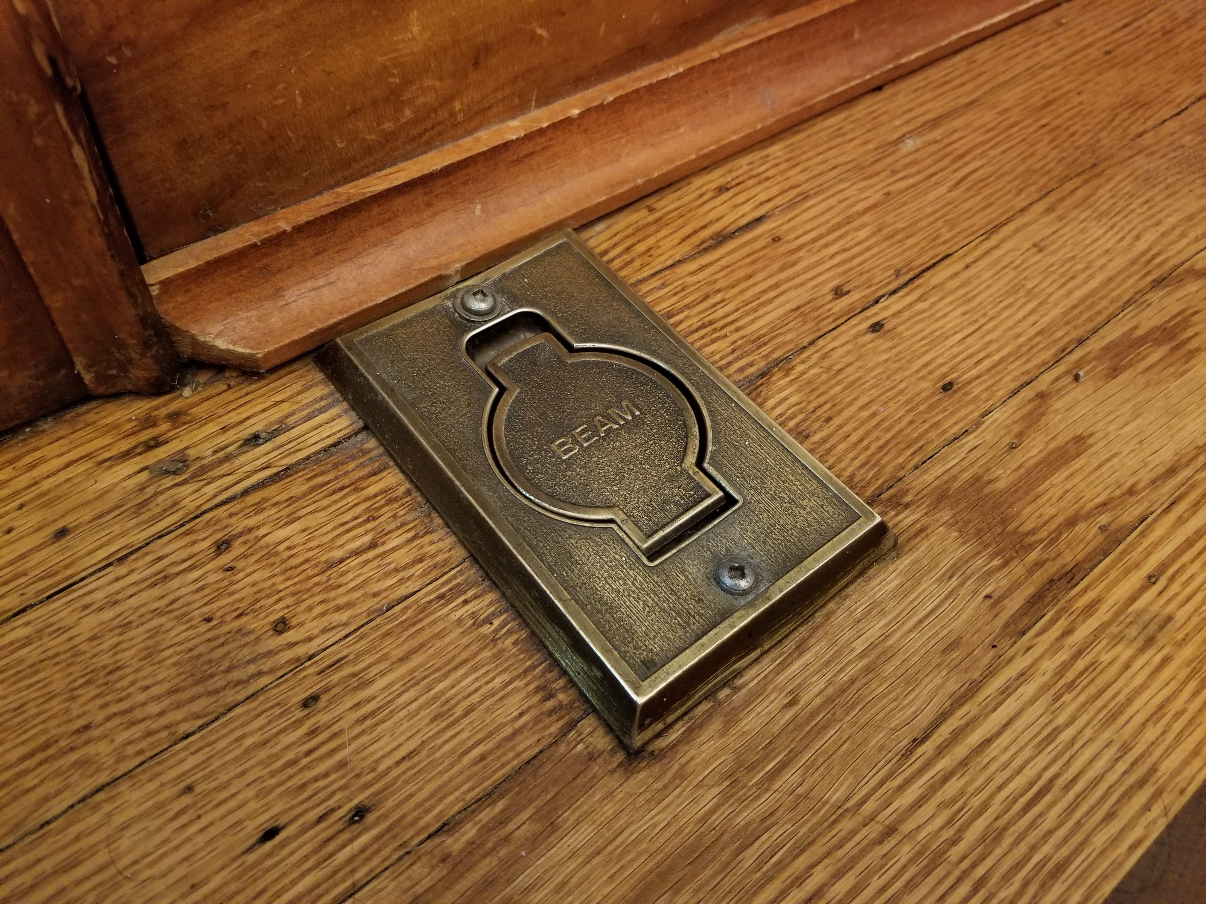 A metal central vacuum floor inlet installed in a 1929 Canadian house. Metal floor inlets are used in locations in existing structures where it would be impossible or impractical to install standard wall inlets